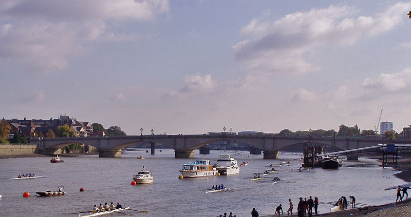 Putney Bridge in London with a rowing crew coming down to the finish line of a race on The Championship Course, the annual Schools Head and others facing against the tide having finished. Photo taken by User:Johnteslade